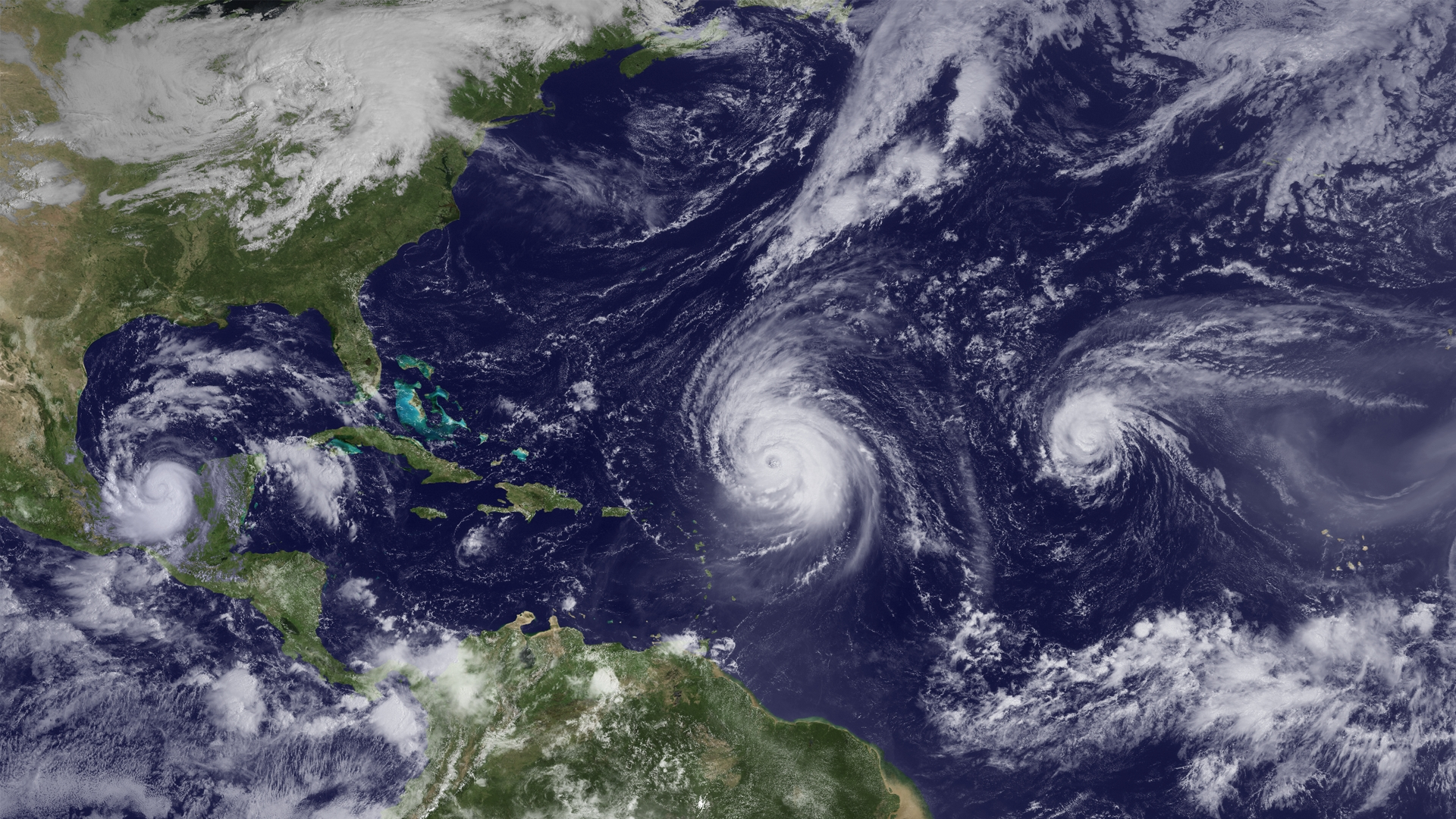 This image shows Hurricanes Igor, Julia and Karl at 1445Z, September 16. Large and powerful Igor is moving slowly northwestward, Julia is weakening as it moves quickly northwestward over open waters of the eastern Atlantic and Karl has become a hurricane. A Hurricane Warning has been issued for the Gulf Coast of Mexico.